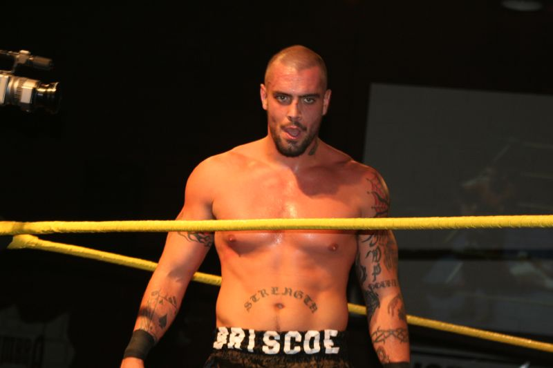 Professional wrestler Jay Briscoe at a Velocity Pro Wrestling show in September 2008.